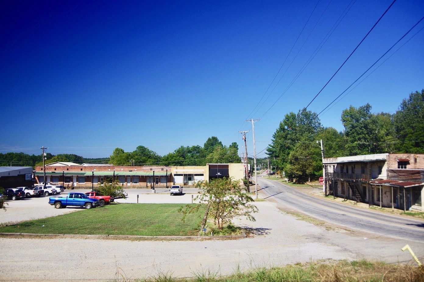 Buildings at the intersection of State Highway 354 and Main Street in Walnut, Mississippi, United States.